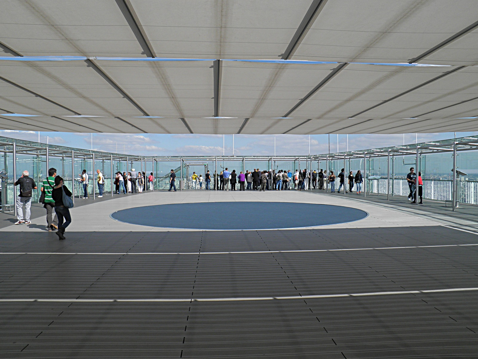 Montparnasse Tower